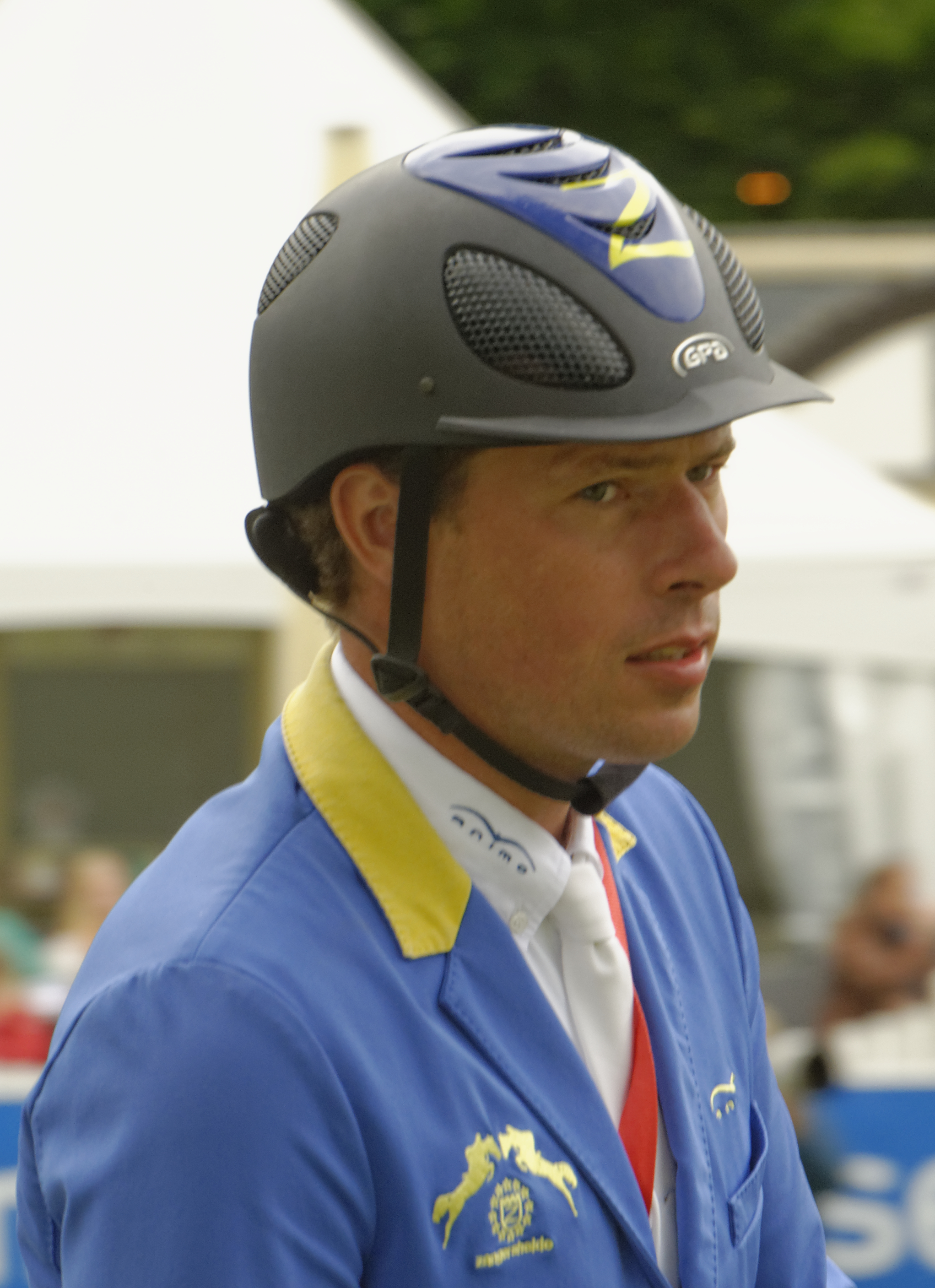 Internationales Pfingstturnier Wiesbaden 2013 The making of this document was supported by the Community-Budget of Wikimedia Germany.